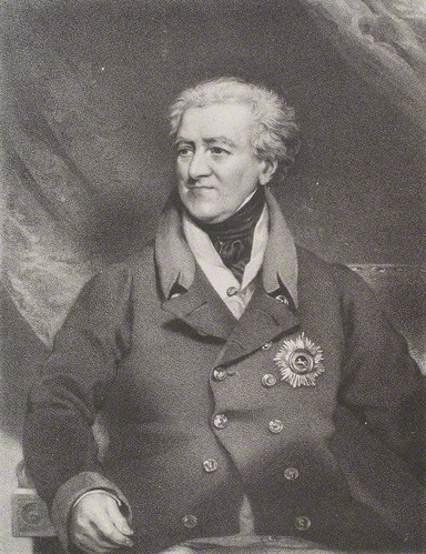 Portrait of Sir Samuel Hulse